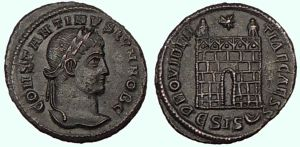 Constantinus II AE Follis, RIC VII, Siscia 216